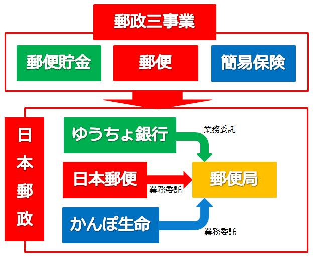 Image chart of Postal service privatization in Japan